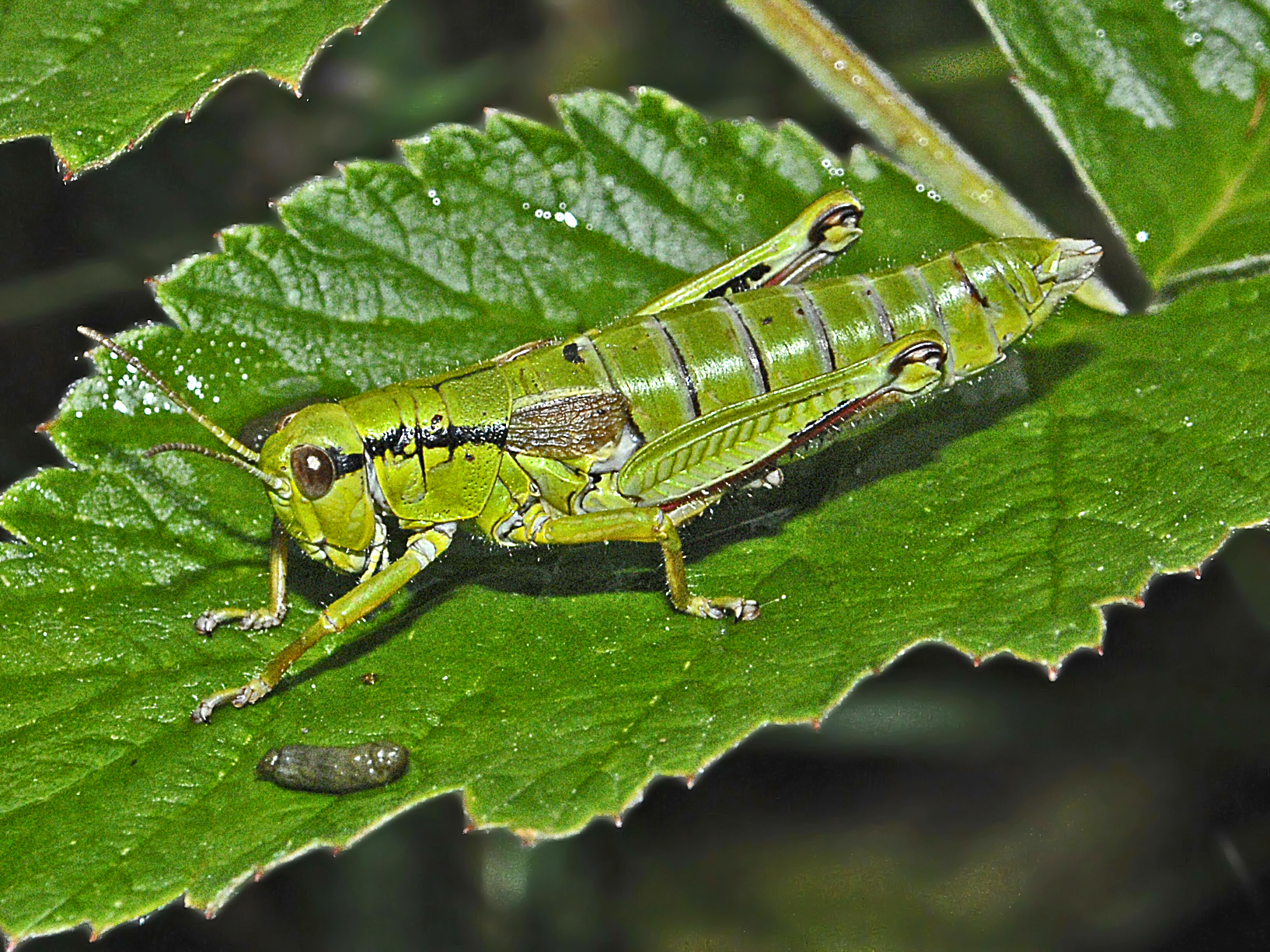 Miramella (Kisella) alpina subalpina. La Thuile, Aosta, Italy